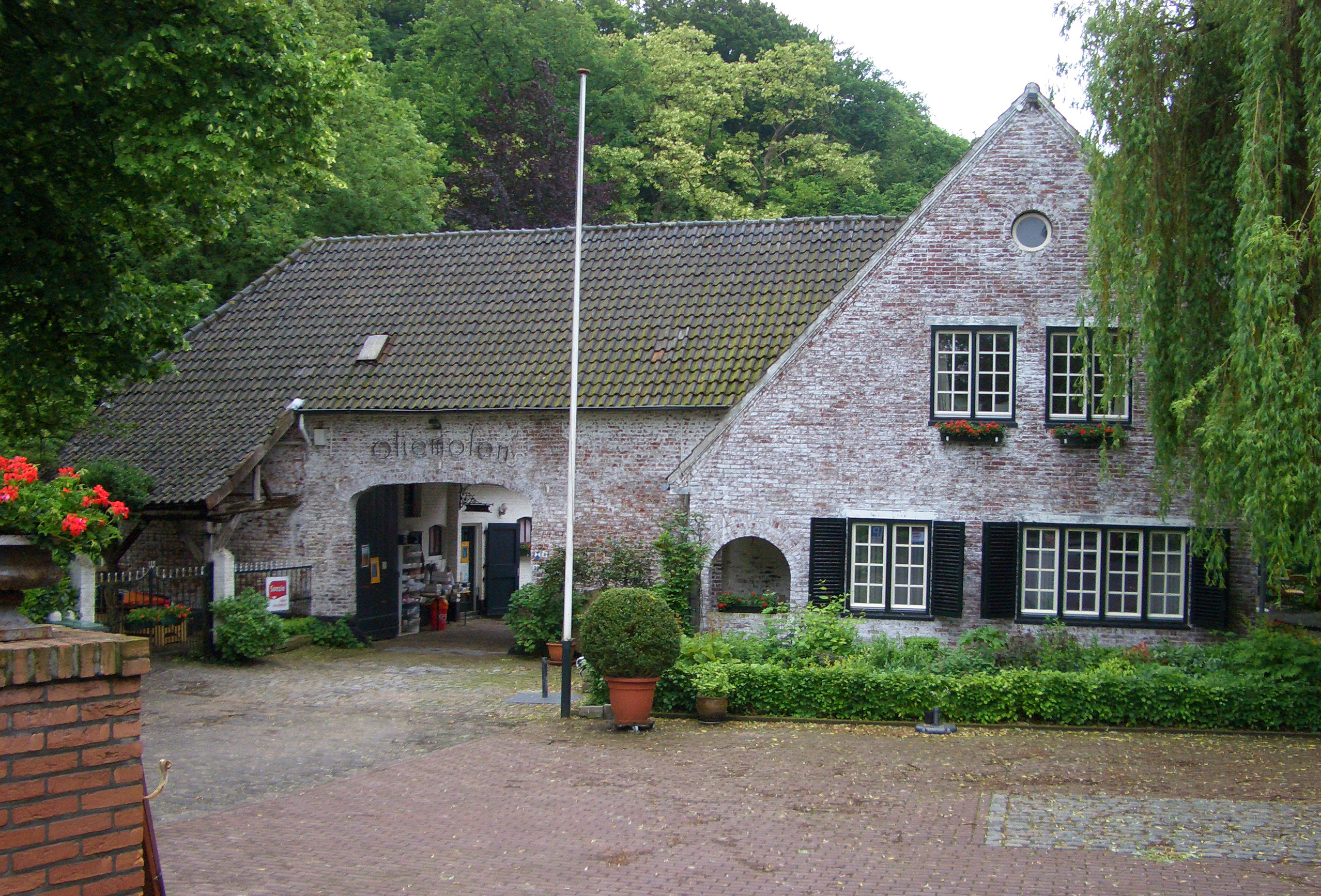 The Olie Molen in Heerlen